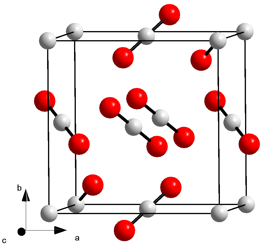 Crystal structure of Carbon dioxide